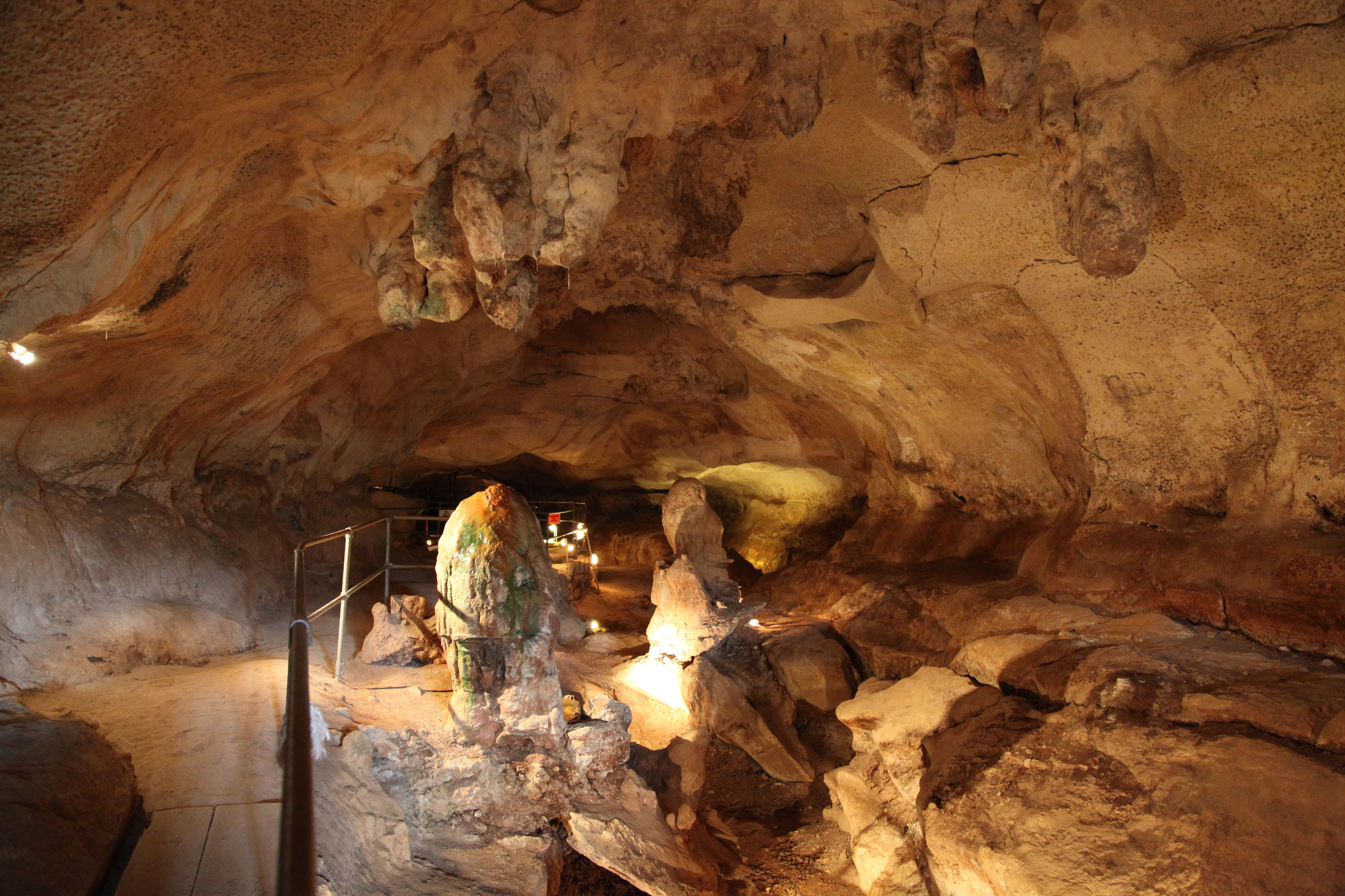 Cave of Għar Dalam, Triq Għar Dalam in Birżebbuġa